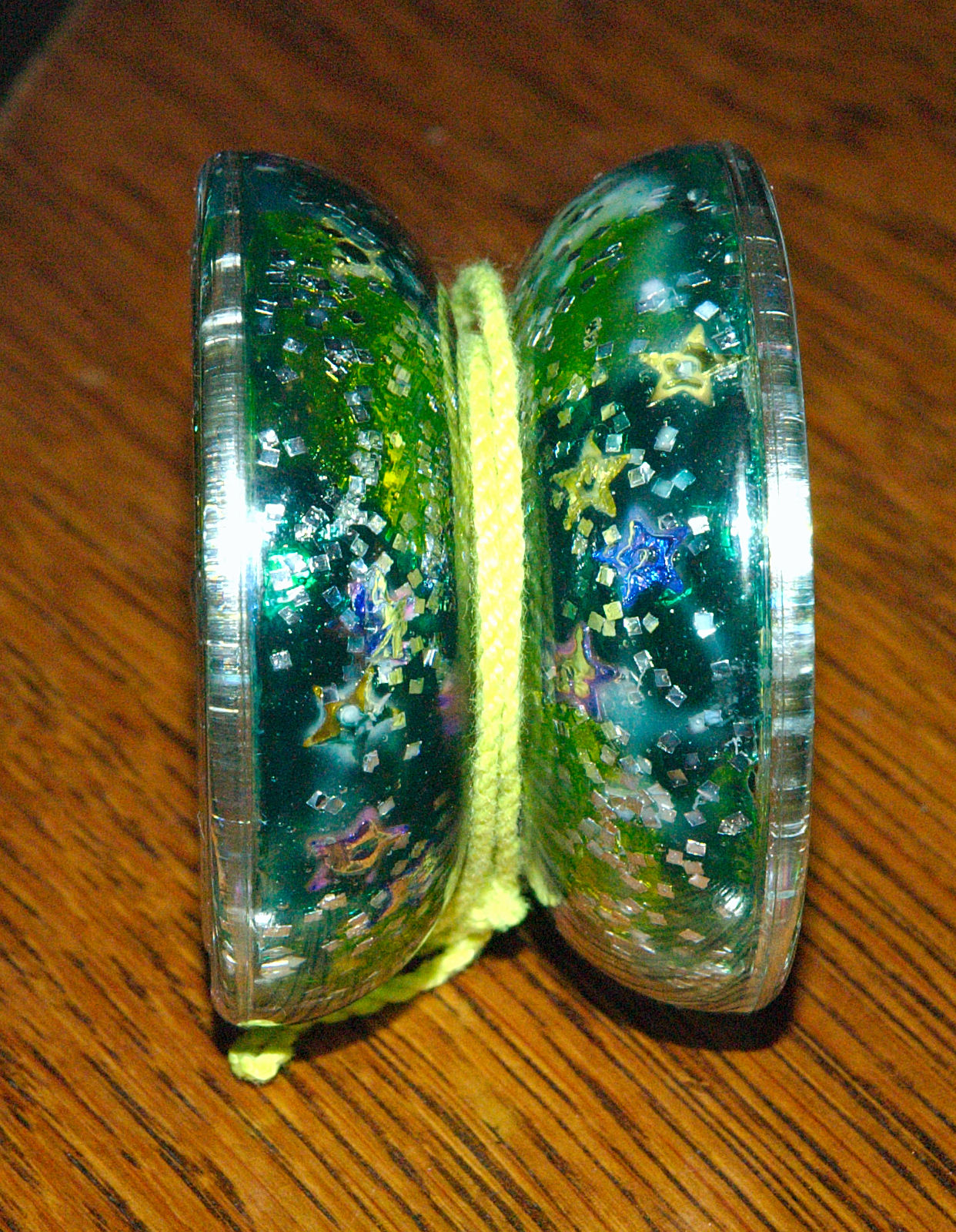 Yo-yo which has butterfly shape